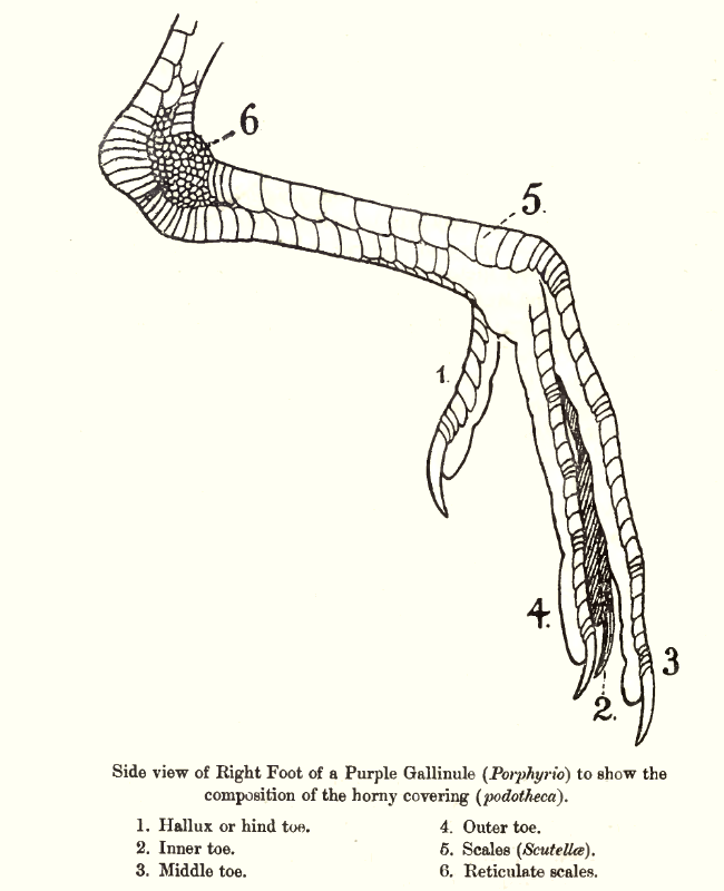 Bird leg scalation